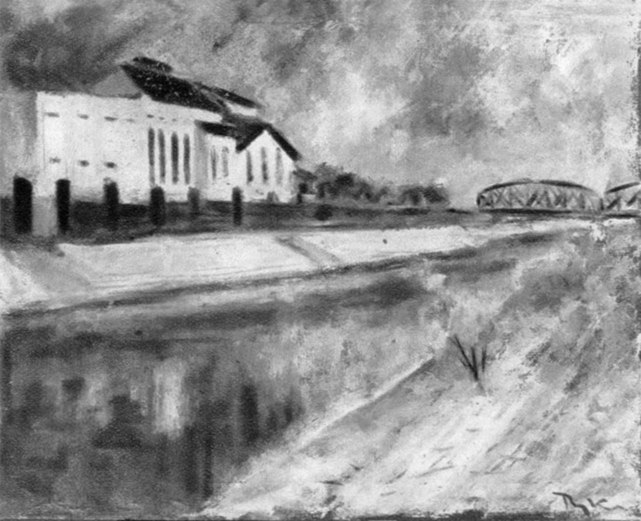 Sugar rafinery in Kolín (oil)